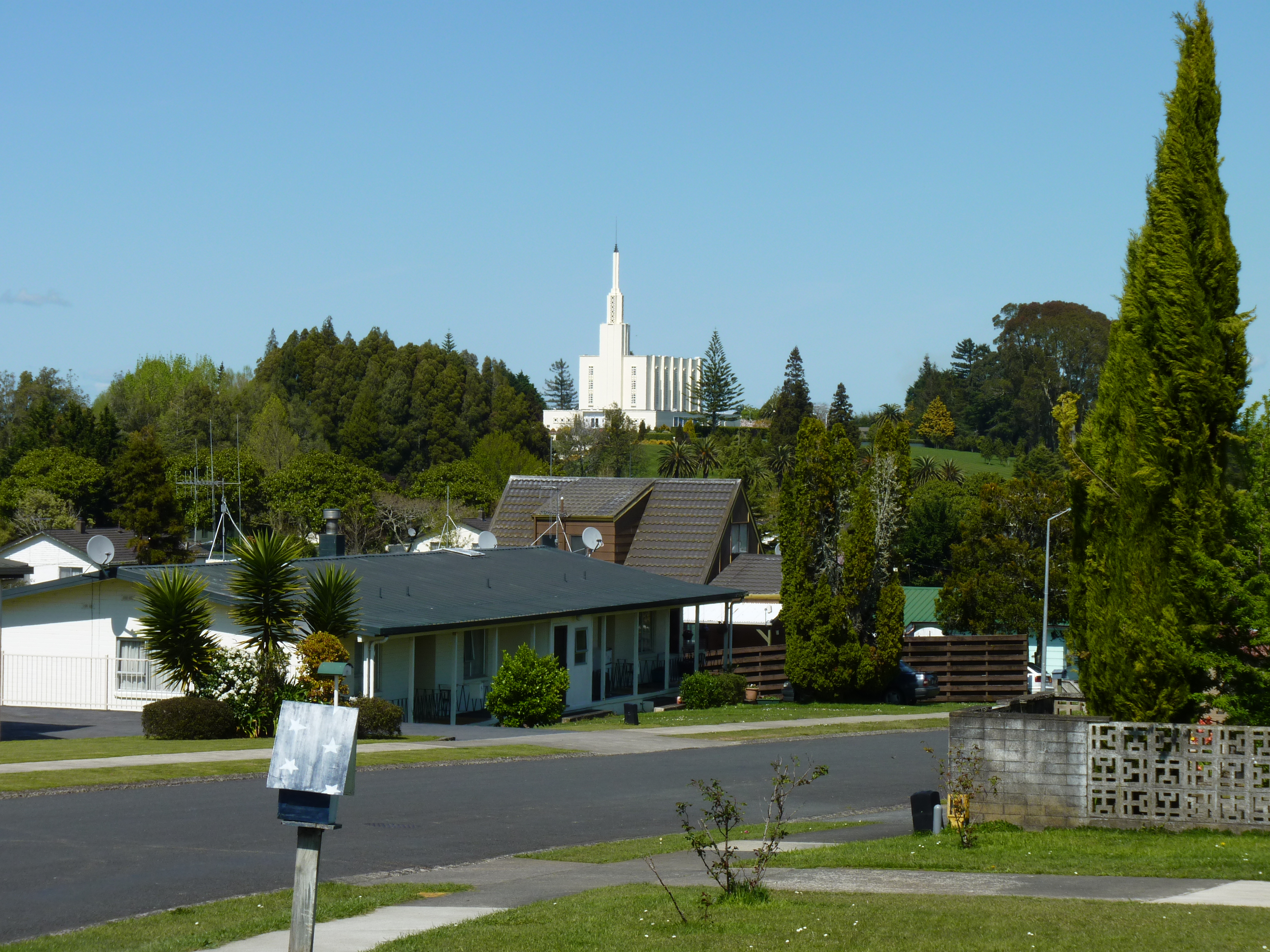 Temple View in south Hamilton, New Zealand.